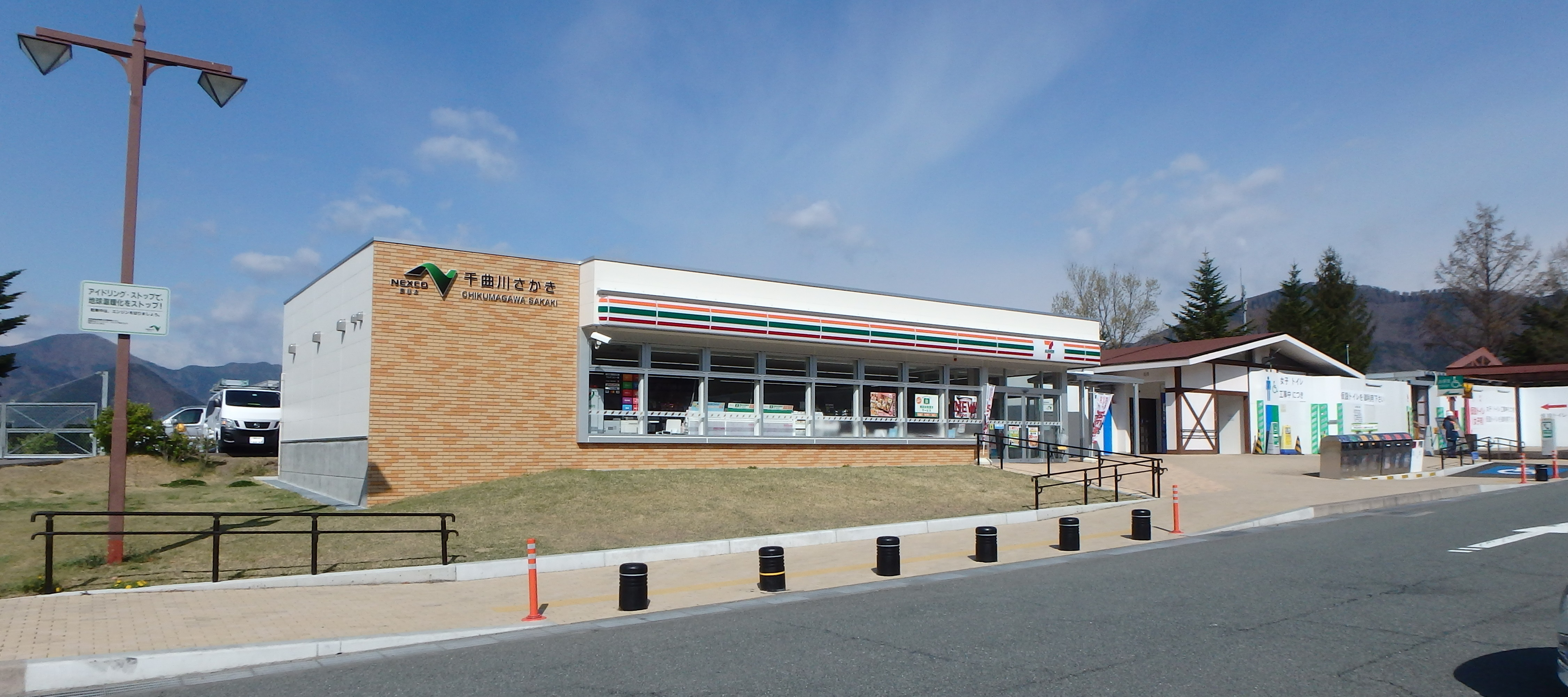 Chikumagawa-Sakaki Parking Area for Jōetsu Nagano prefecture,Japan